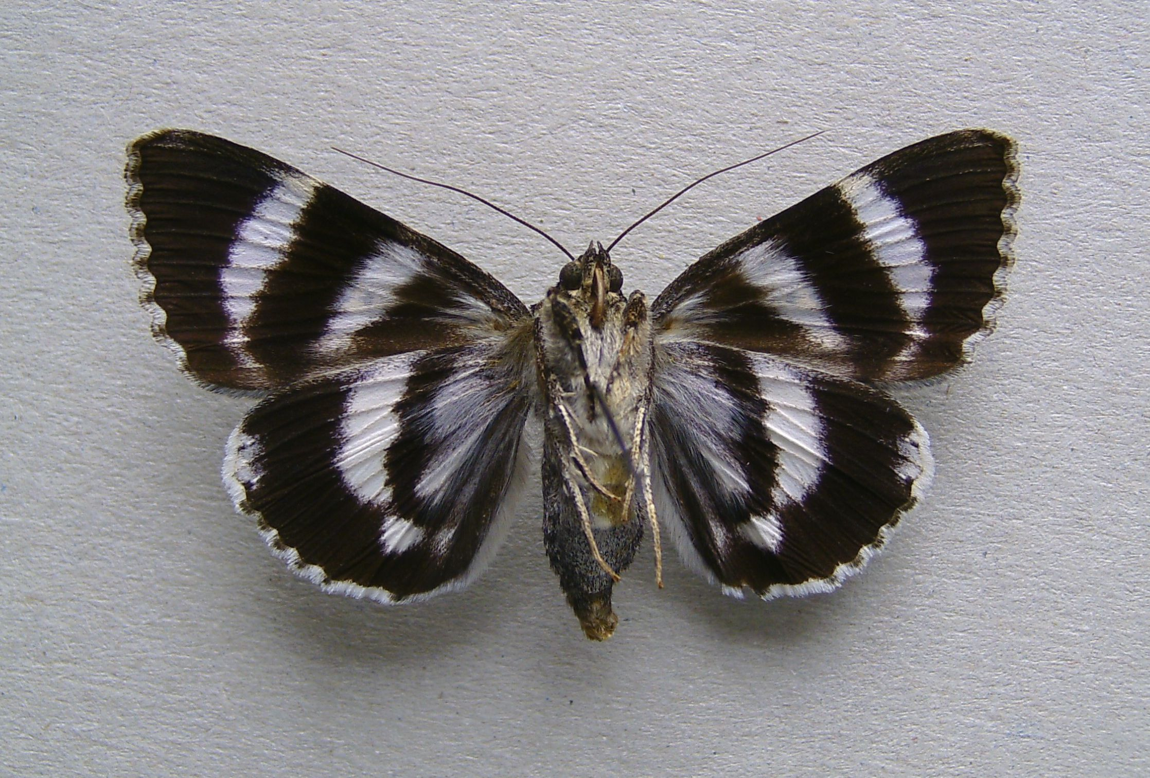 Catocala actaea underside, Vladivostok